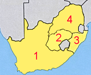 Map of former (until 1994) Provinces of South Africa # Cape Province (see also Cape Colony) # Free State Province (see also Orange Free State) # KwaZulu-Natal Province (see also Natalia Republic) # Transvaal (see also South African Republic)